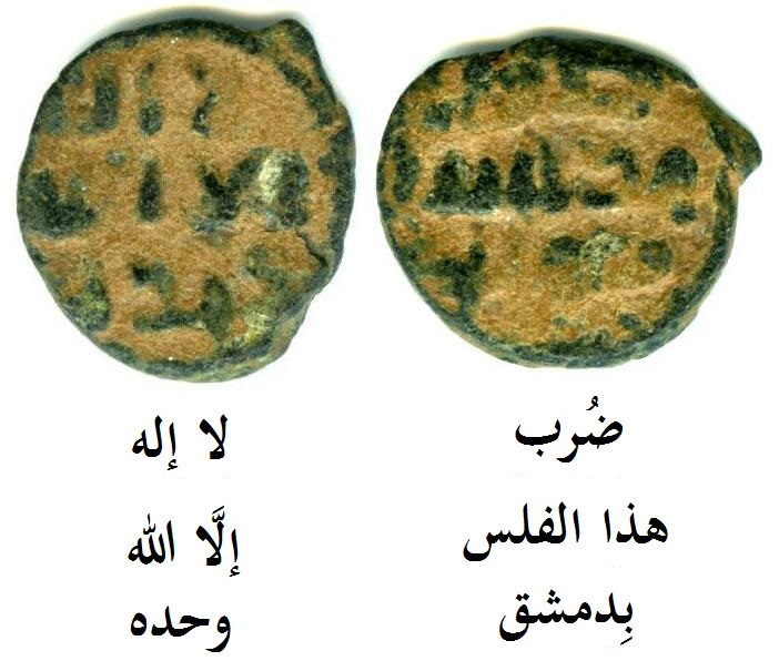 A fals minted in Damascus during the rule of the Umayyads. Issued between 696 and 750 AD.